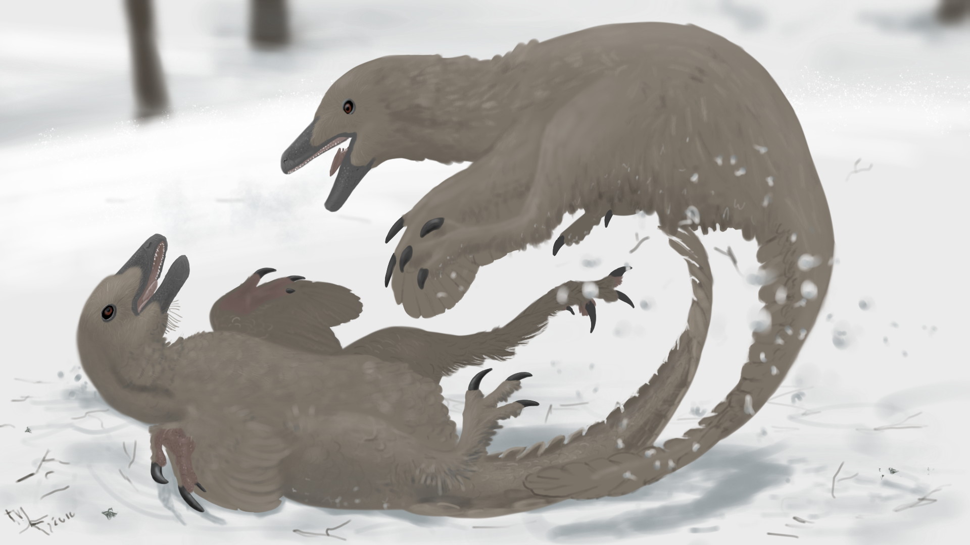 Reconstruction of two Stenonychosaurus inequalis playing in snow.